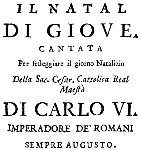 Giuseppe Bonno - Il natal di Giove - titlepage of the libretto - Vienna 1740